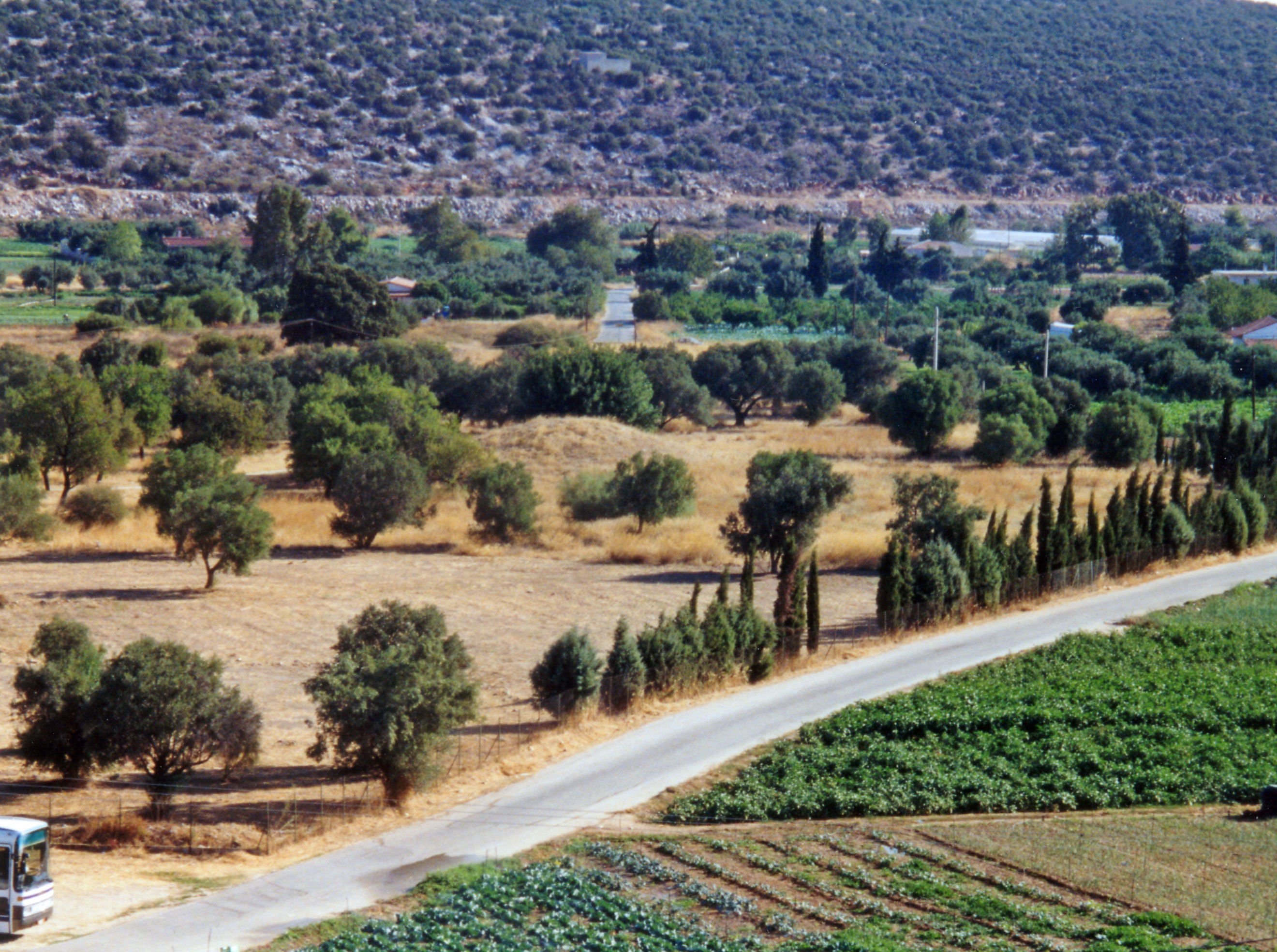 Athens was not alone when it fought the Persians at Sparta. Plataea also sent soldiers. Their fallen have a smaller burial mound.